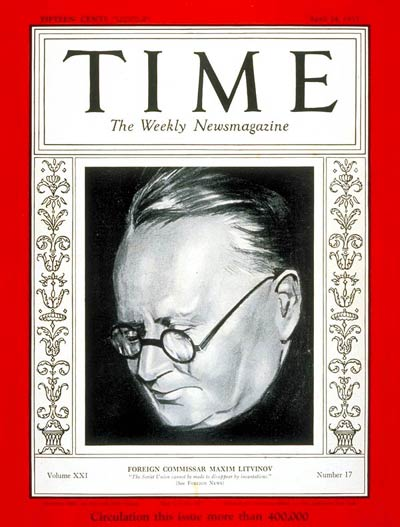 Maxim Litvinov